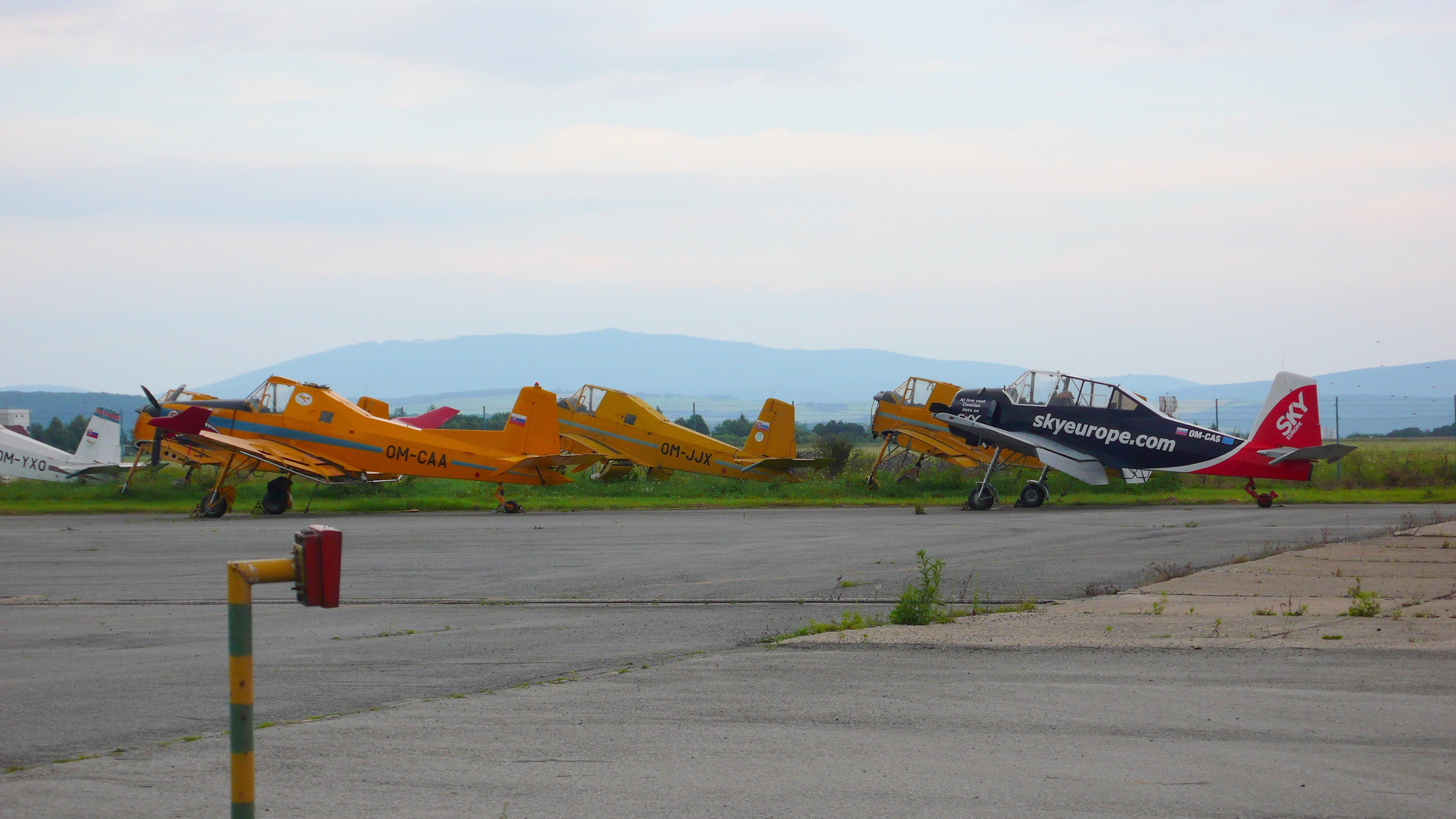 Plane Zlin Z-37A-2 Cmelak of the comany SkyEurope, at the Košice International Airport, remark: OM-CAS